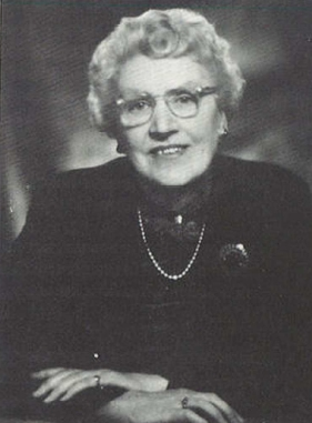 Photo of Sybil Morrison